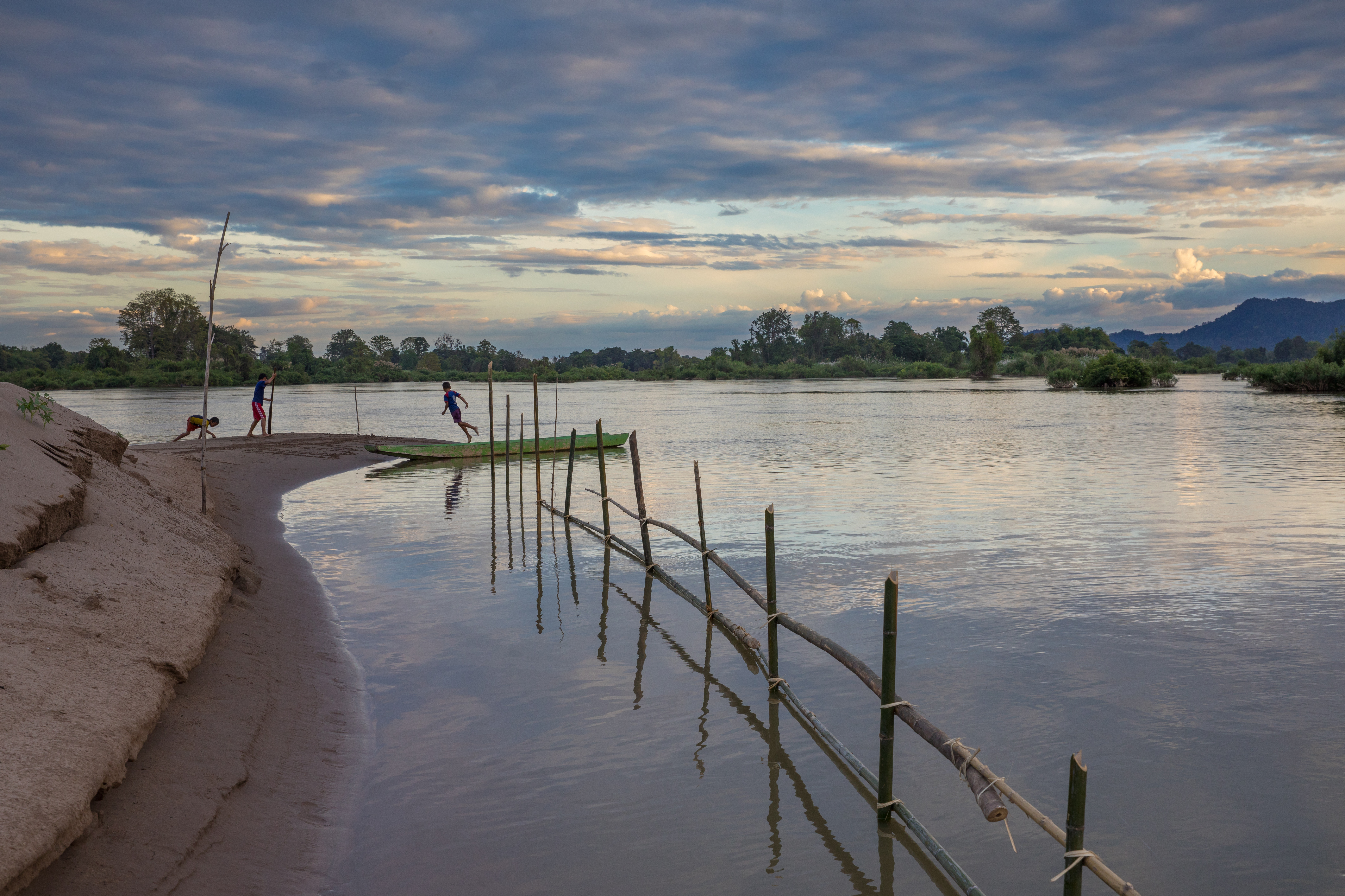 Children playing at sunset on a Mekong bank, near a submerged fence reflecting in the water, not far from the island of Don Loppadi in Si Phan Don (4000 islands), Laos